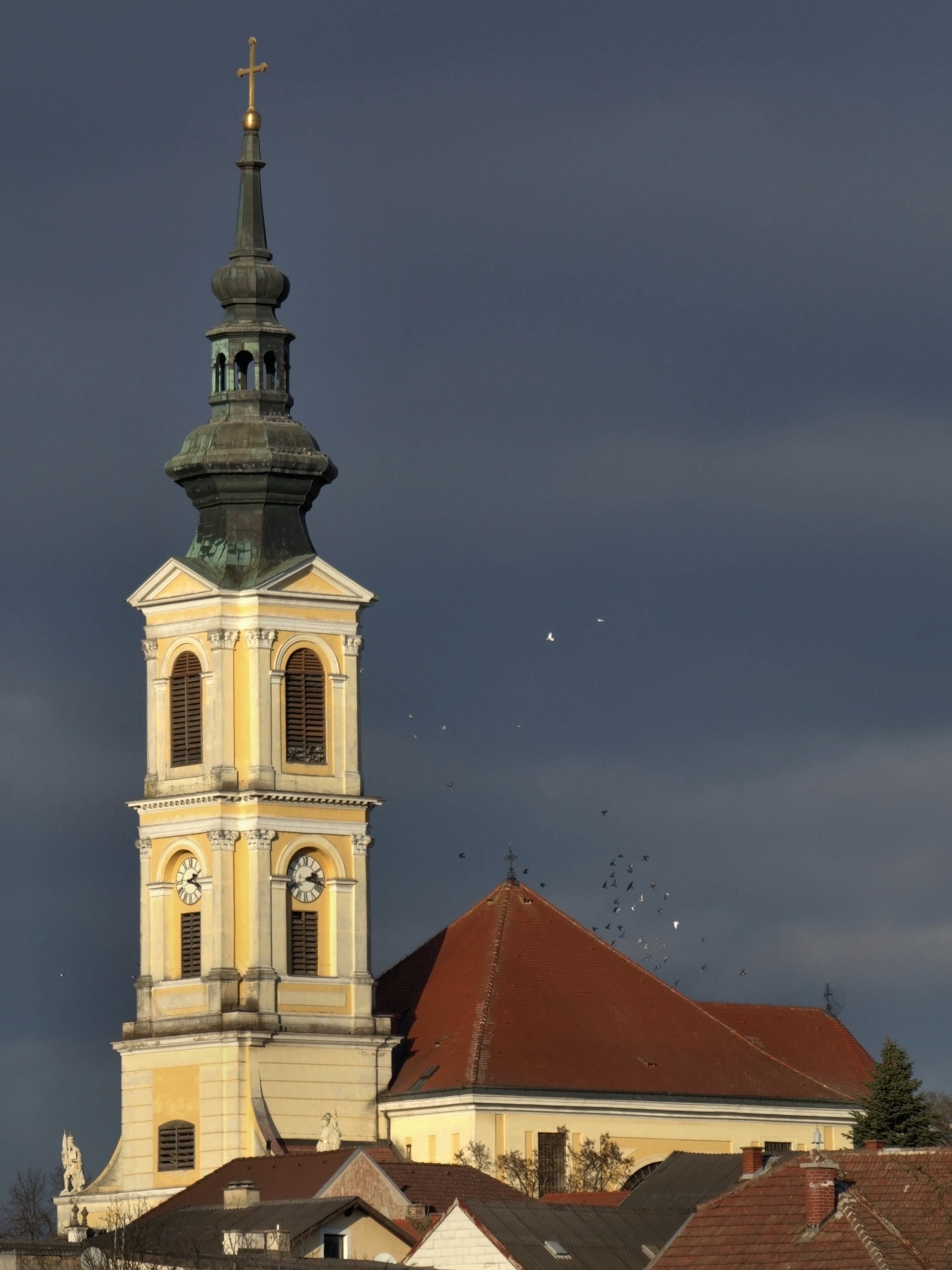 Großweikersdorf Pfarrkirche St. Georg